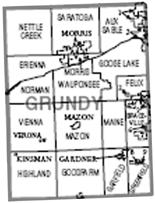 Township map of Grundy County, Illinois